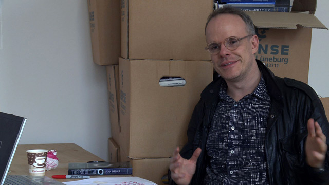 Contemporary art curator and critic Hans-Ulrich Obrist. Still image from the 2010 documentary "The Future of Art" by Erik Niedling and Ingo Niermann.